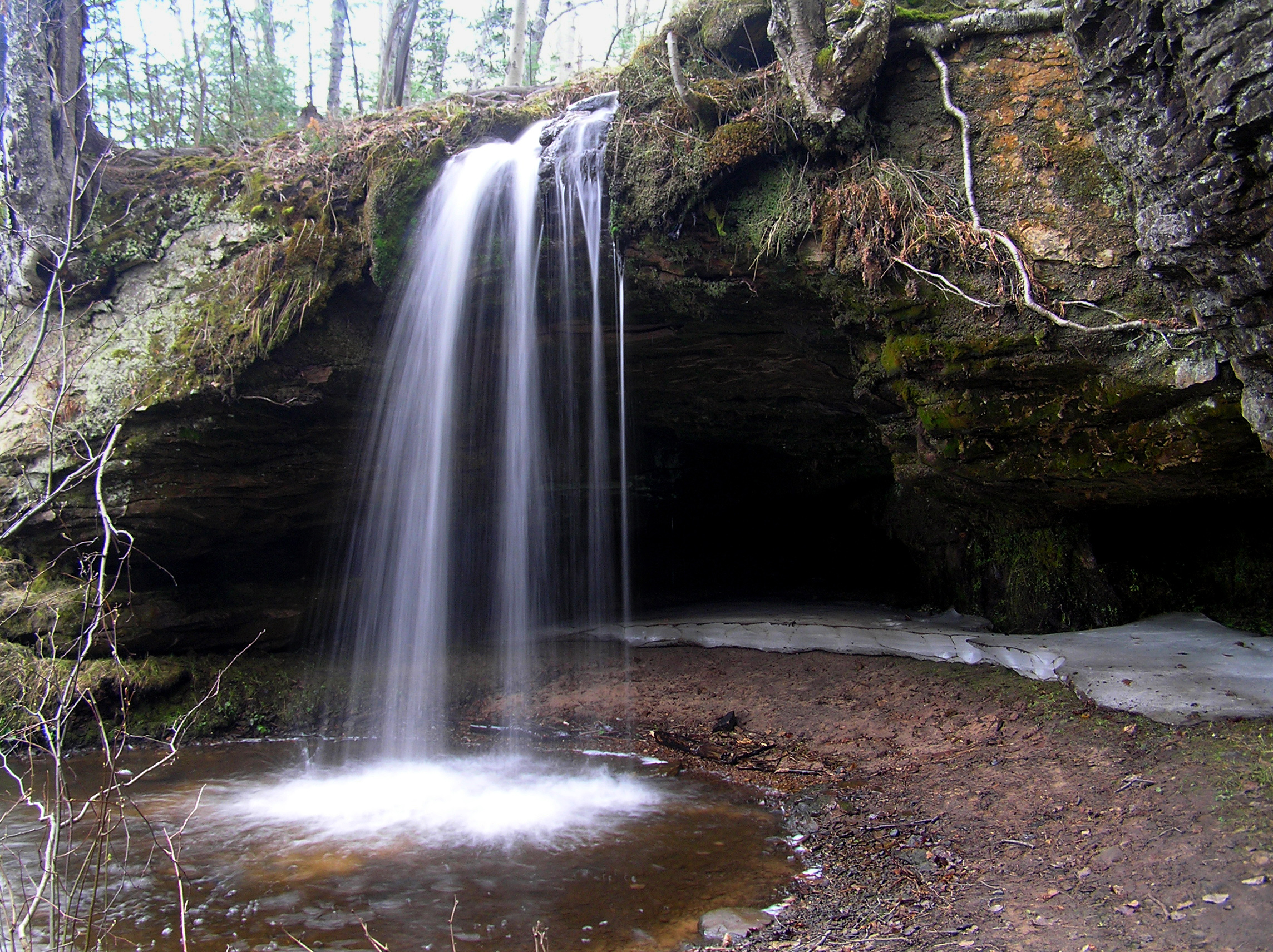 Scott Falls is part of the Harold J. Rathfoot Roadside Park near Au Train, Michigan.